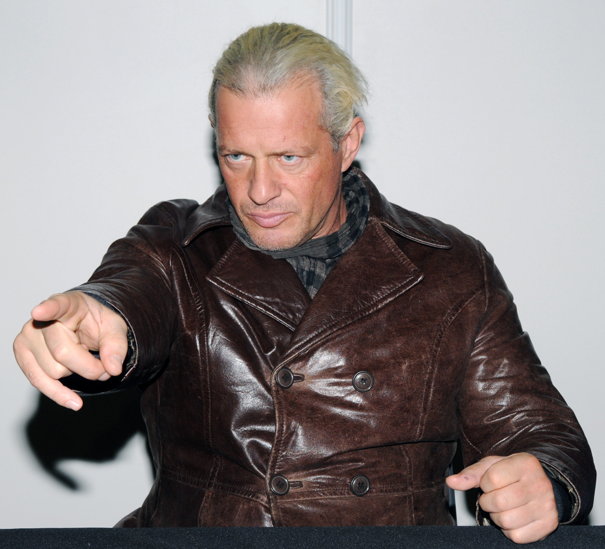 Costas Mandylor @ Weekend Of Horrors 11 - Turbinenhalle Oberhausen, Germany 2013